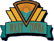 Logo of the city of West Covina, California